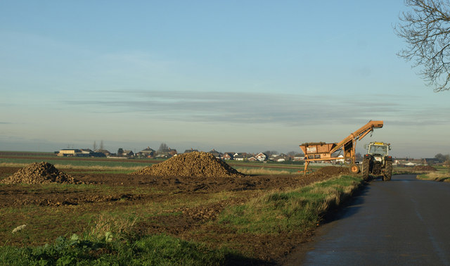 Root Crop Cleaning near Winteringham. This piece of agricultural machinery seen on the Winterton Road removes earth from root crops.